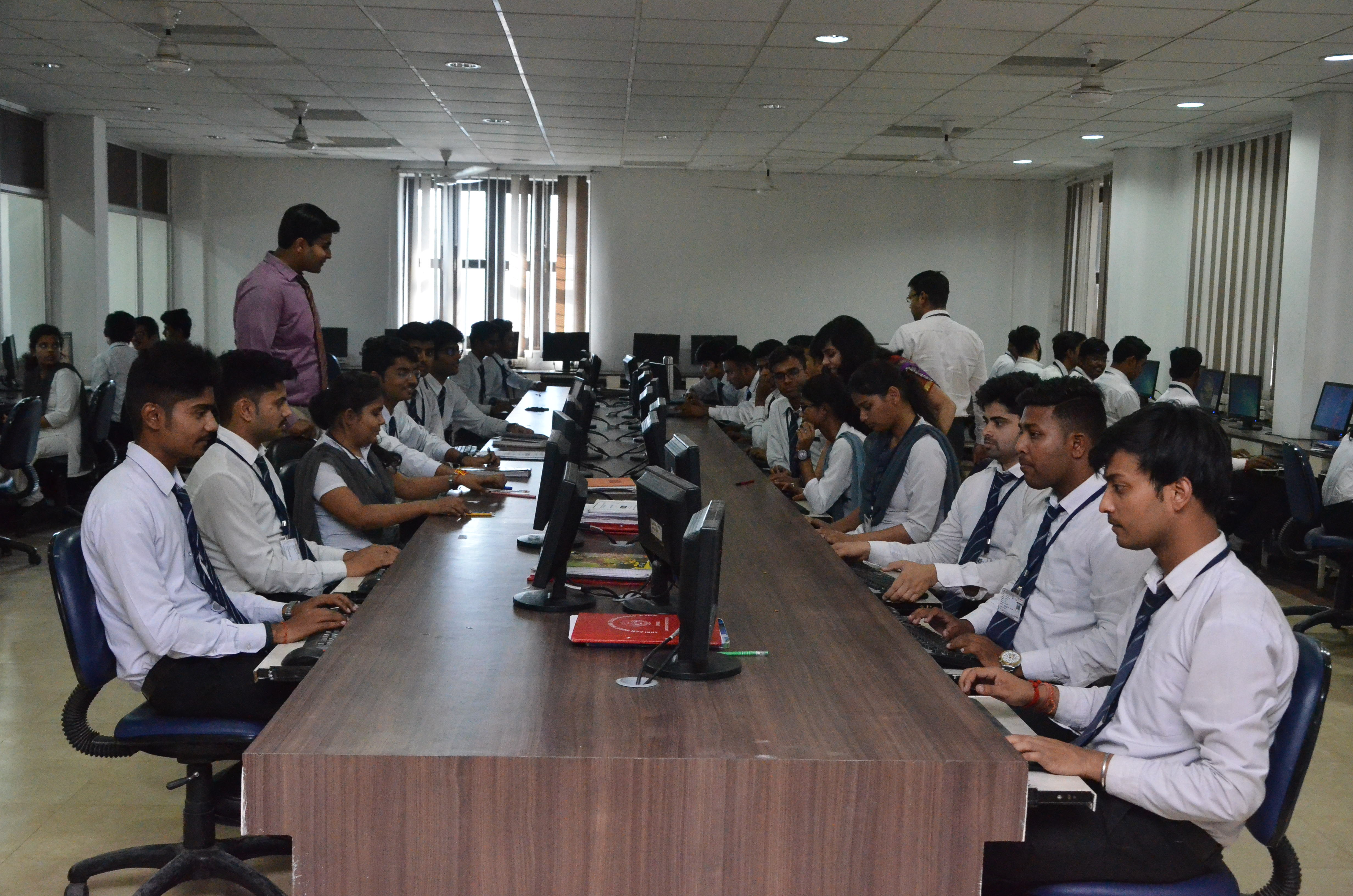 Lab Work